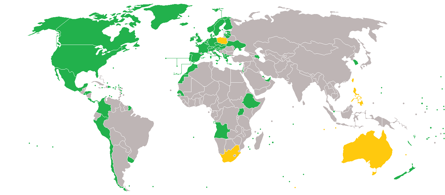 Powering past coal members map. _ Member _ Subnational members